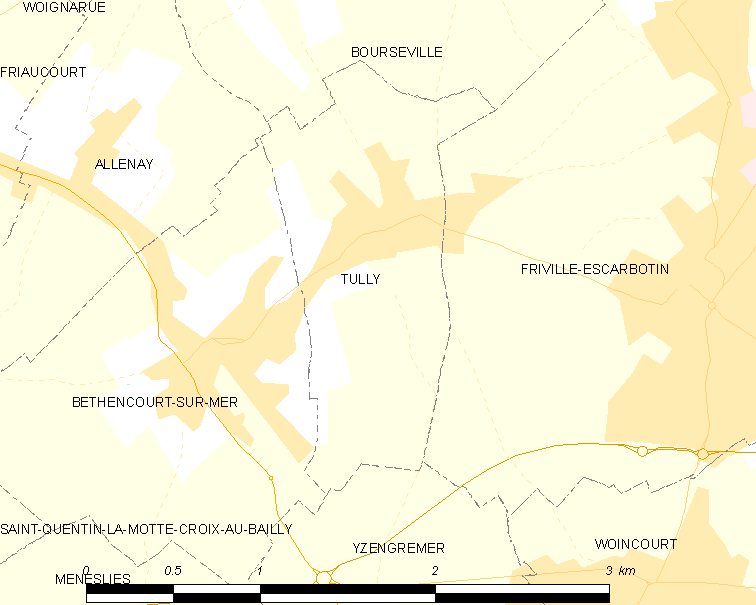 Map of French municipality Tully